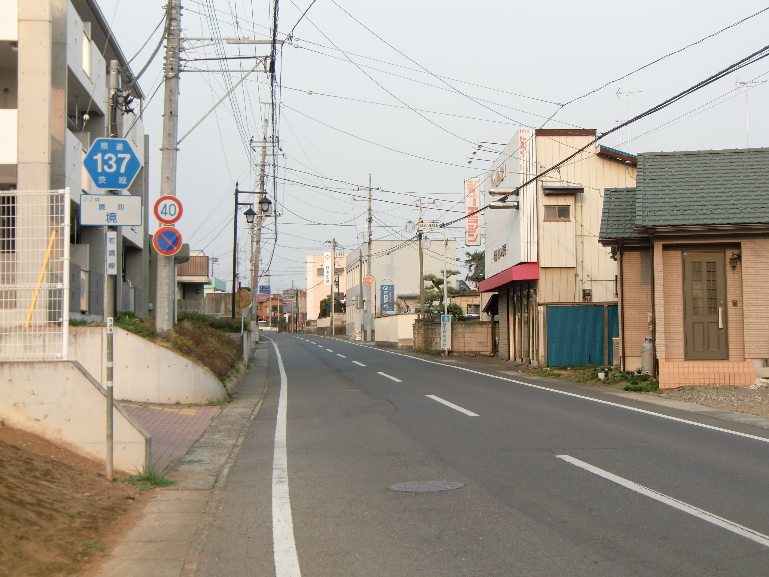 Ibaraki prefectural road 137(Waka-Sakai line) in Sakai, Sakai-town, Ibaraki, Japan.